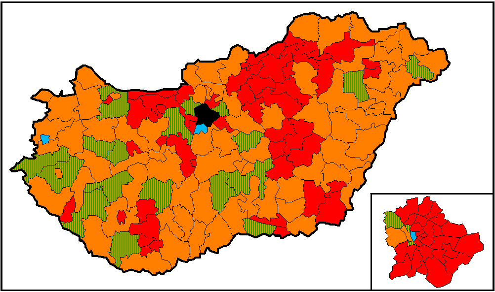 Election Results, Hungary 2002 ██ = Fidesz ██ = Hungarian Socialist Party ██ = Hungarian Democratic Forum + Fidesz ██ = Alliance of Free Democrats